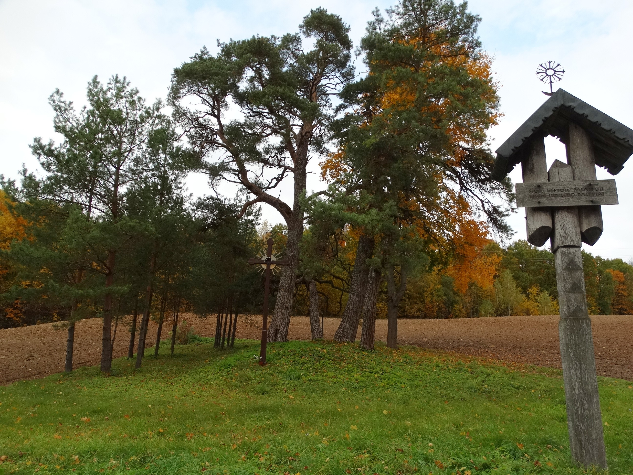 Cemetery of 1863 m. uprising, Prapuntai, Lazdijai District, Lithuania